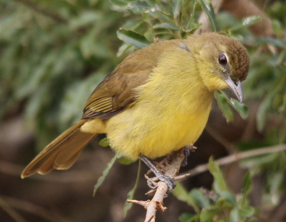 Yellow-bellied Greenbul, Chlorocichla flaviventris